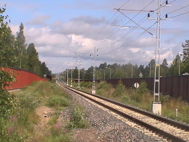 New Haparanda Line near Kalix in June 2013. In nowadays there goes mainly trains, which are pulled by electric locomotives.